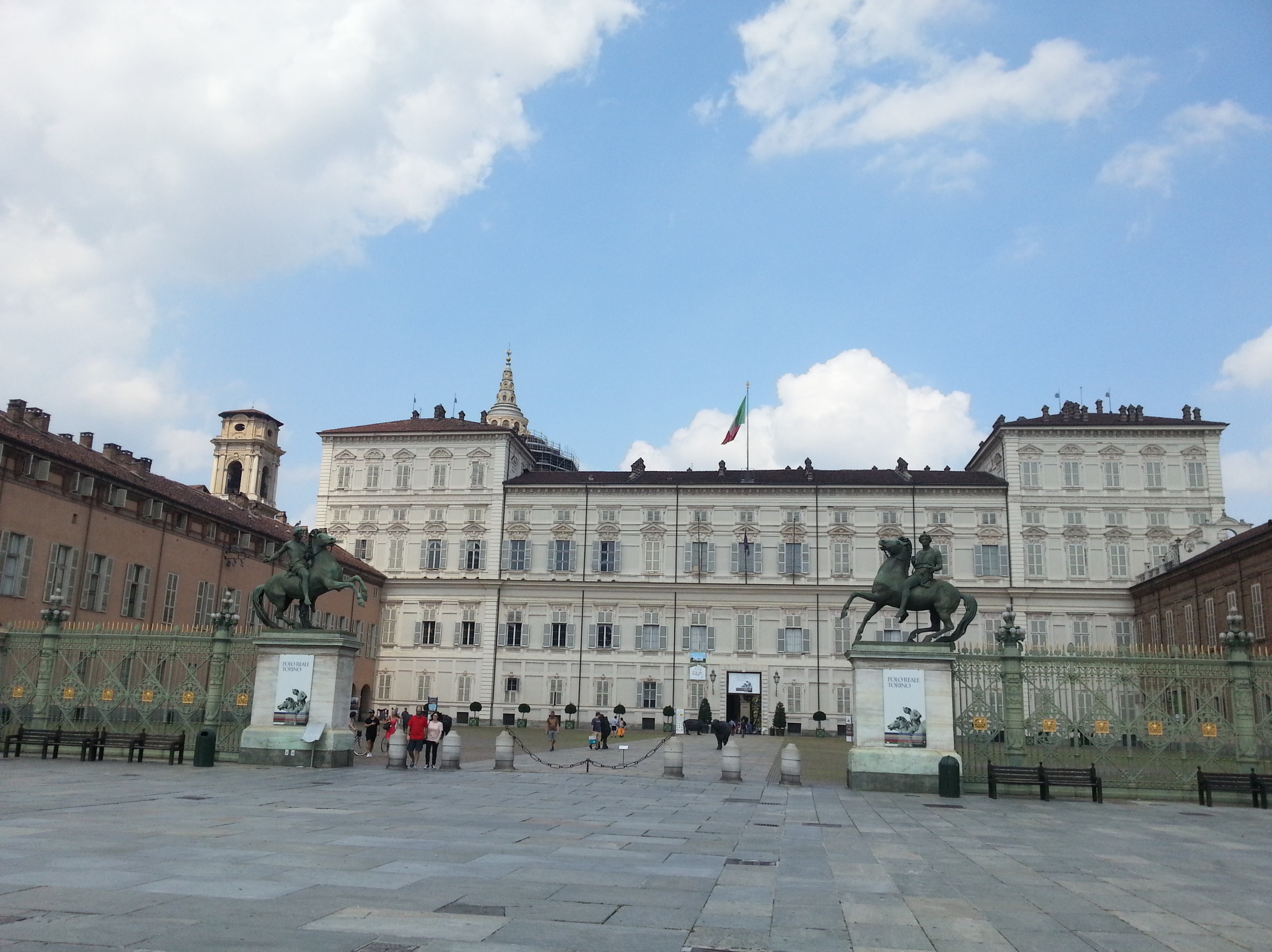 gates of the Royal Palace of Turin, Northern Italy